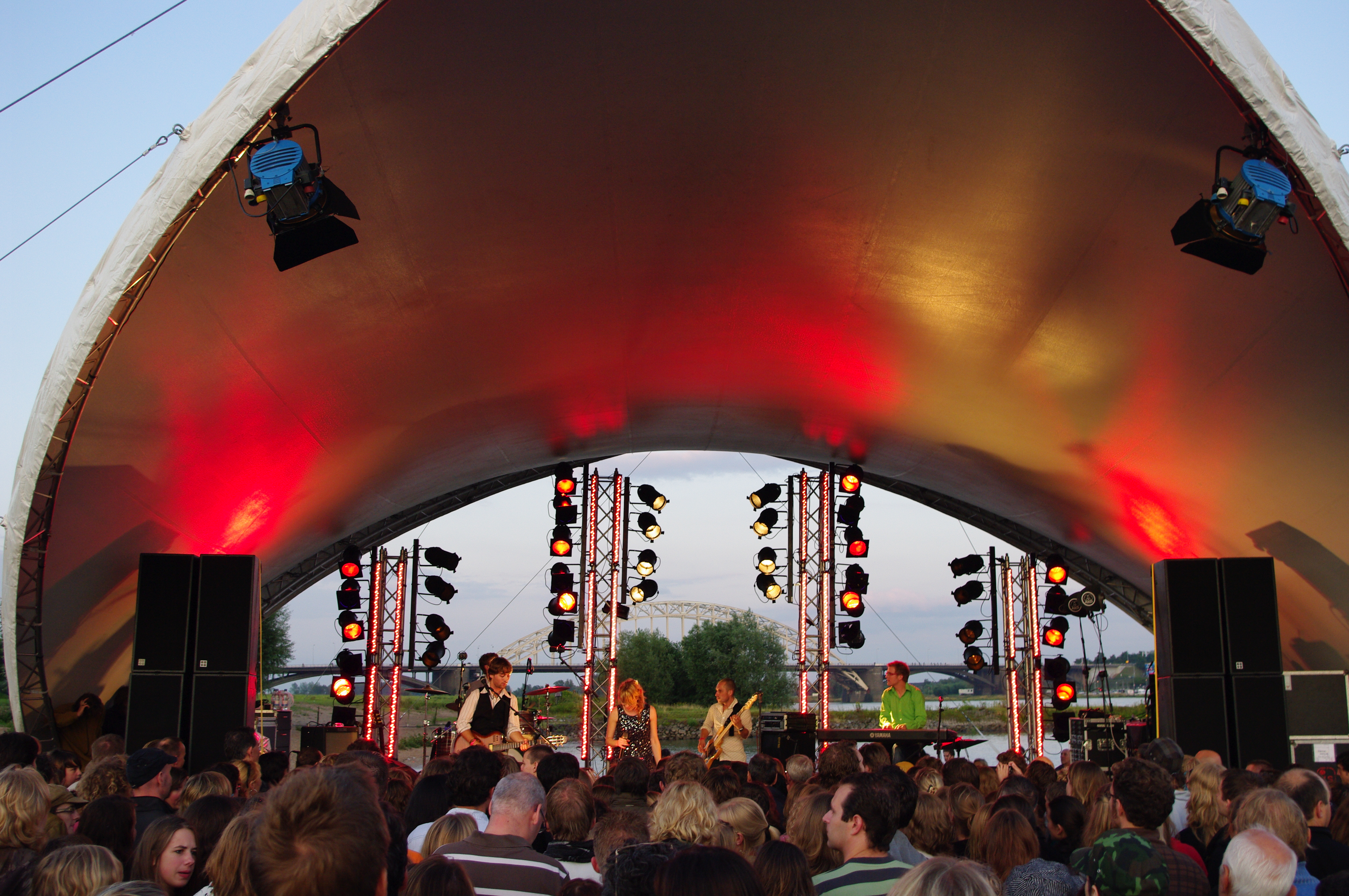 Room Eleven at the vierdaagsefeesten 2009 around the International Four Days Marches Nijmegen